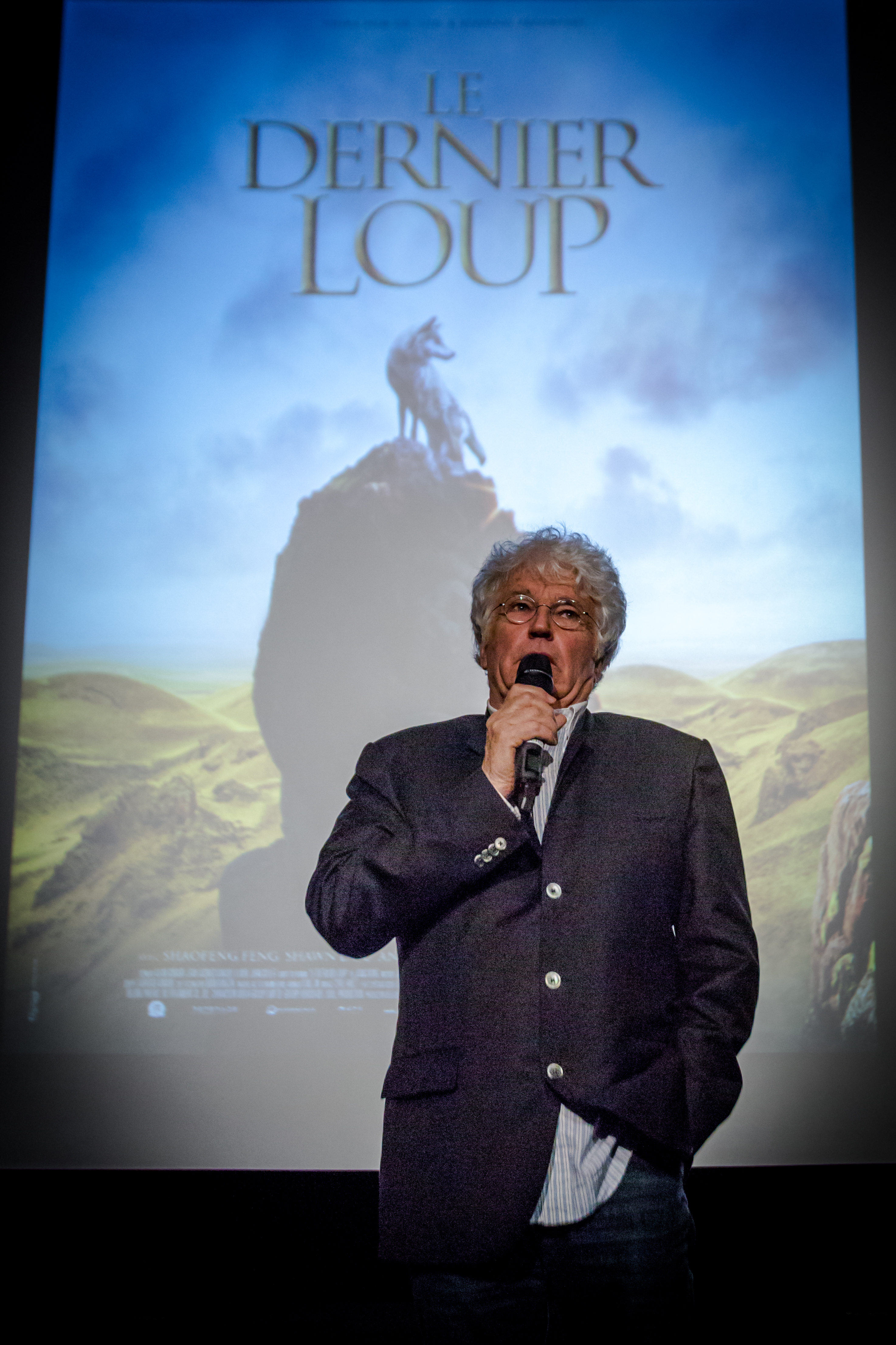 Jean-Jacques Annaud speak about his film, "Wolf Totem" at Strasbourg, february, 20 2015.